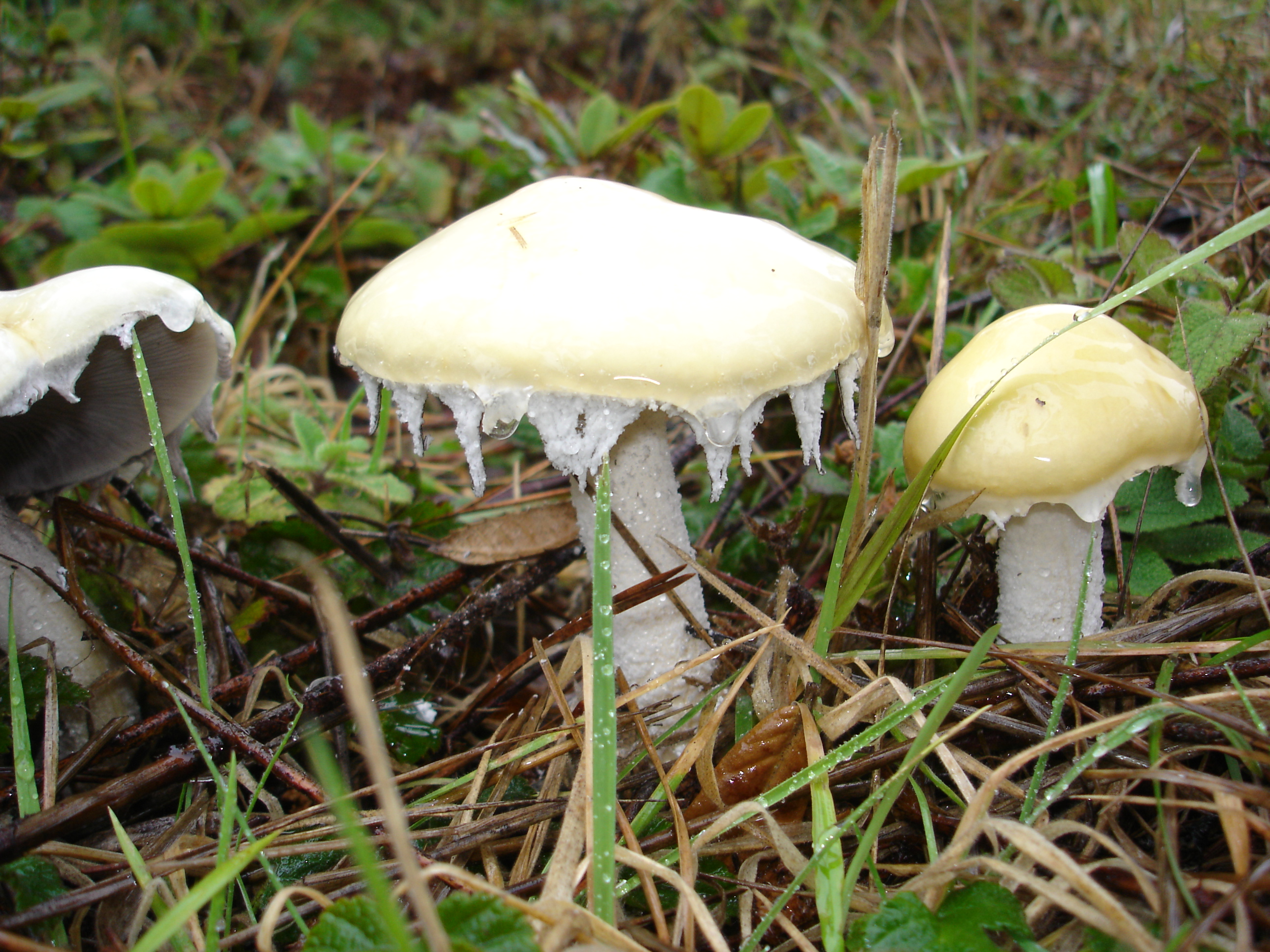 Fruit bodies of the fungus Stropharia ambigua (Peck) Zeller. Specimens found in Mendocino, California, USA.